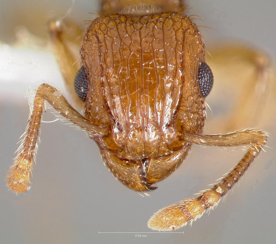 Head view of ant Tetramorium bicarinatum specimen casent0005826.